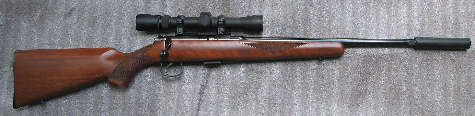 CZ 452 American (.22 Long Rifle) with 16" barrel, Tactical Innovations 1/2" x 20 tpi/1/2" x 28 tpi adapter and Quest rimfire suppressor